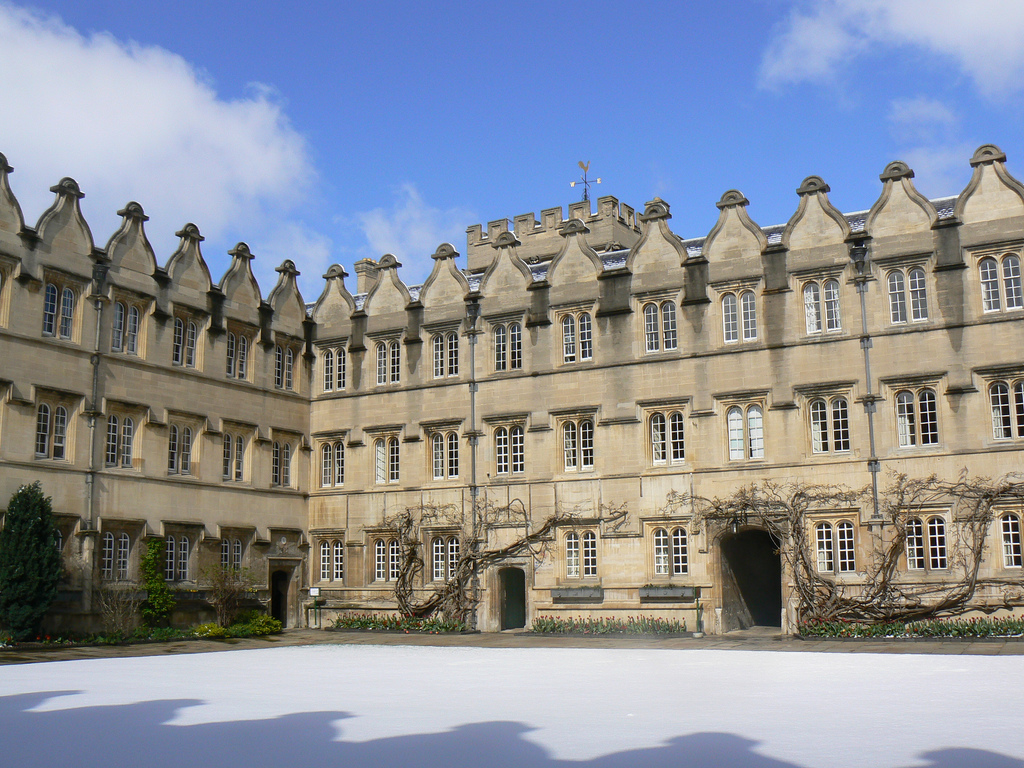 The northwest corner of the second quad of Jesus College, Oxford. The Dutch gables have ogee sides and semi-circular pediments. The writer Simon Jenkins said that the quadrangle has "the familiar Oxford Tudor windows and decorative Dutch gables, crowding the skyline like Welsh dragons' teeth..."[1]